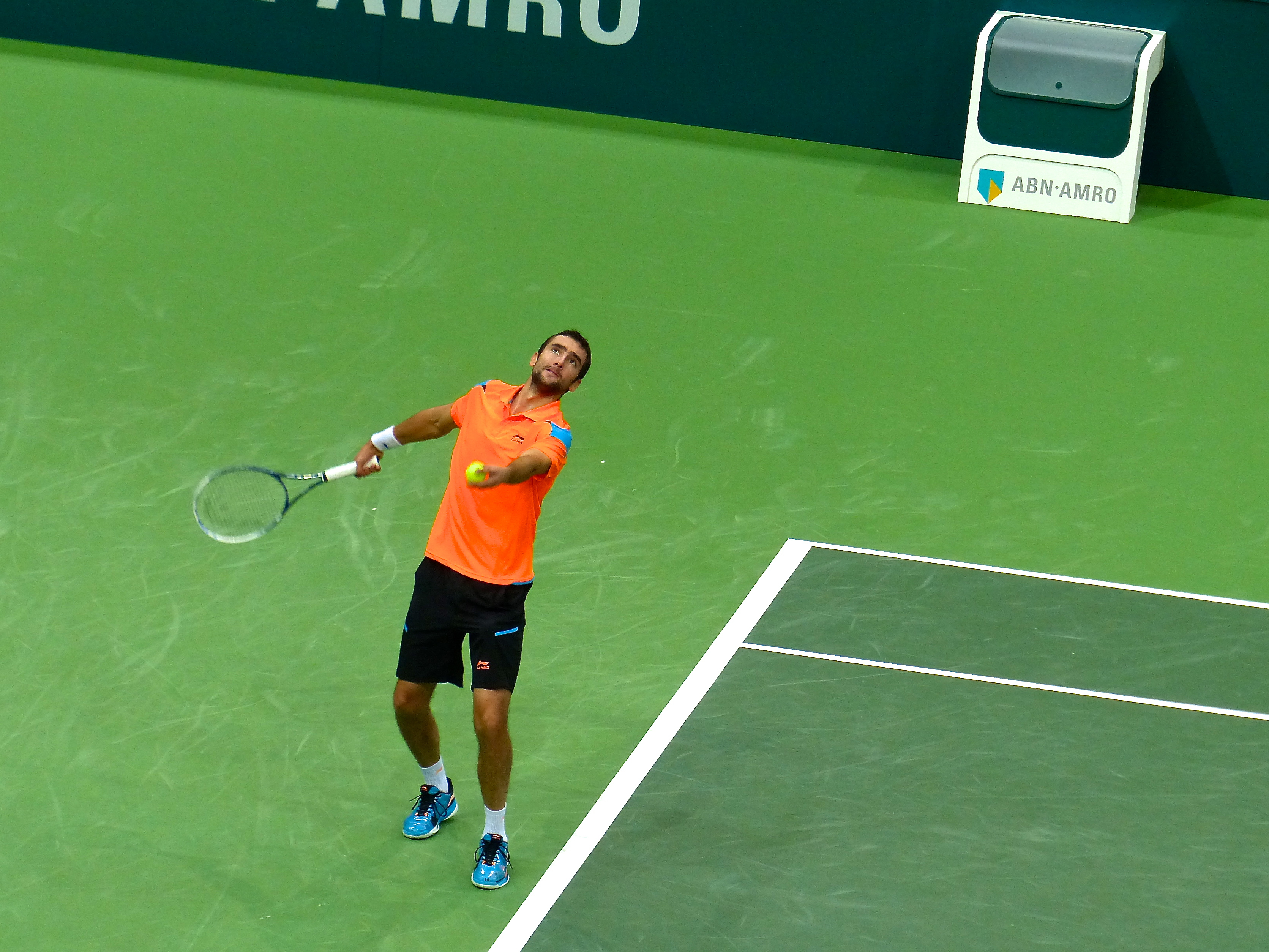 Cilic serving in the 2014 final of the ABN Amro Tennis Tournament in Rotterdam against Tomas Berdych.